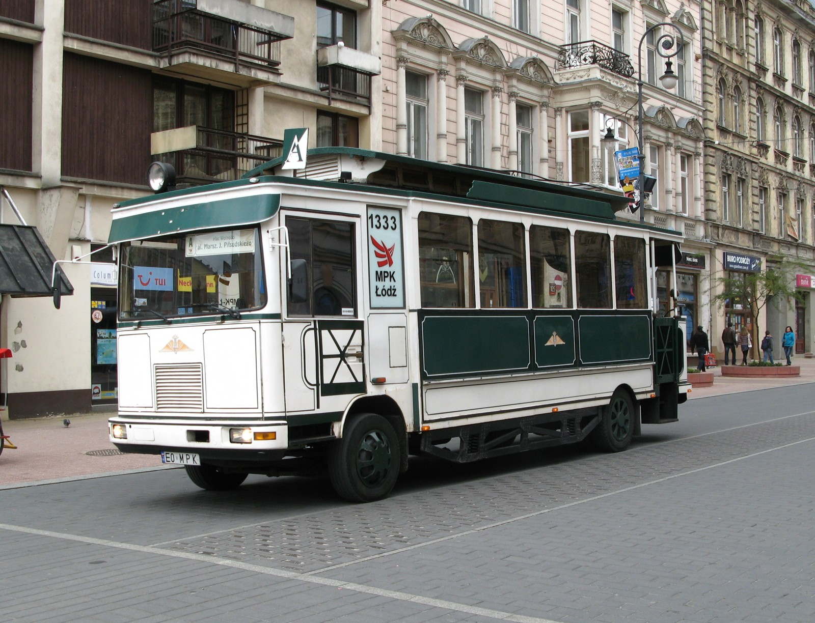 Trambus Herbrand (#1333), Piotrkowska Street, Łódź, Poland. MPK Łódź operator.